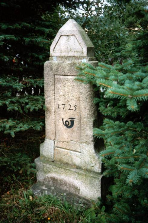 Milestone Nr. 55 in Steinbach near Johanngeorgenstadt, Saxony, Germany.